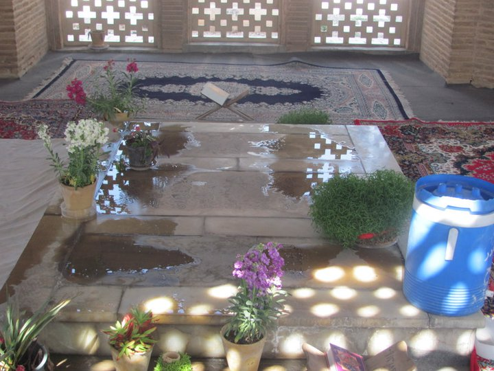 tomb of nooroddin